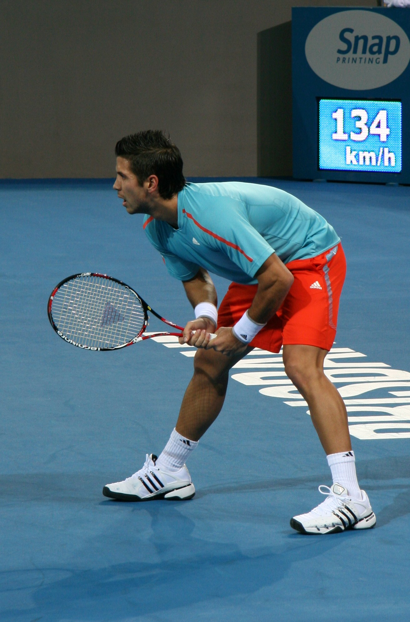 Fernando Verdasco at the 2009 Brisbane International, during his first round match against Bernard Tomic